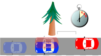 Two-second-rule diagram. Created in Adobe Illustrator.